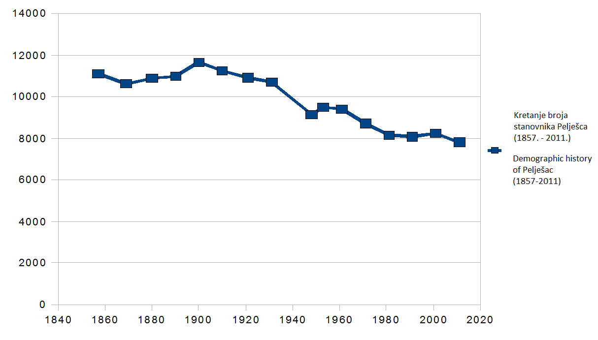 Demographic history of Pelješac in period 1857-2011